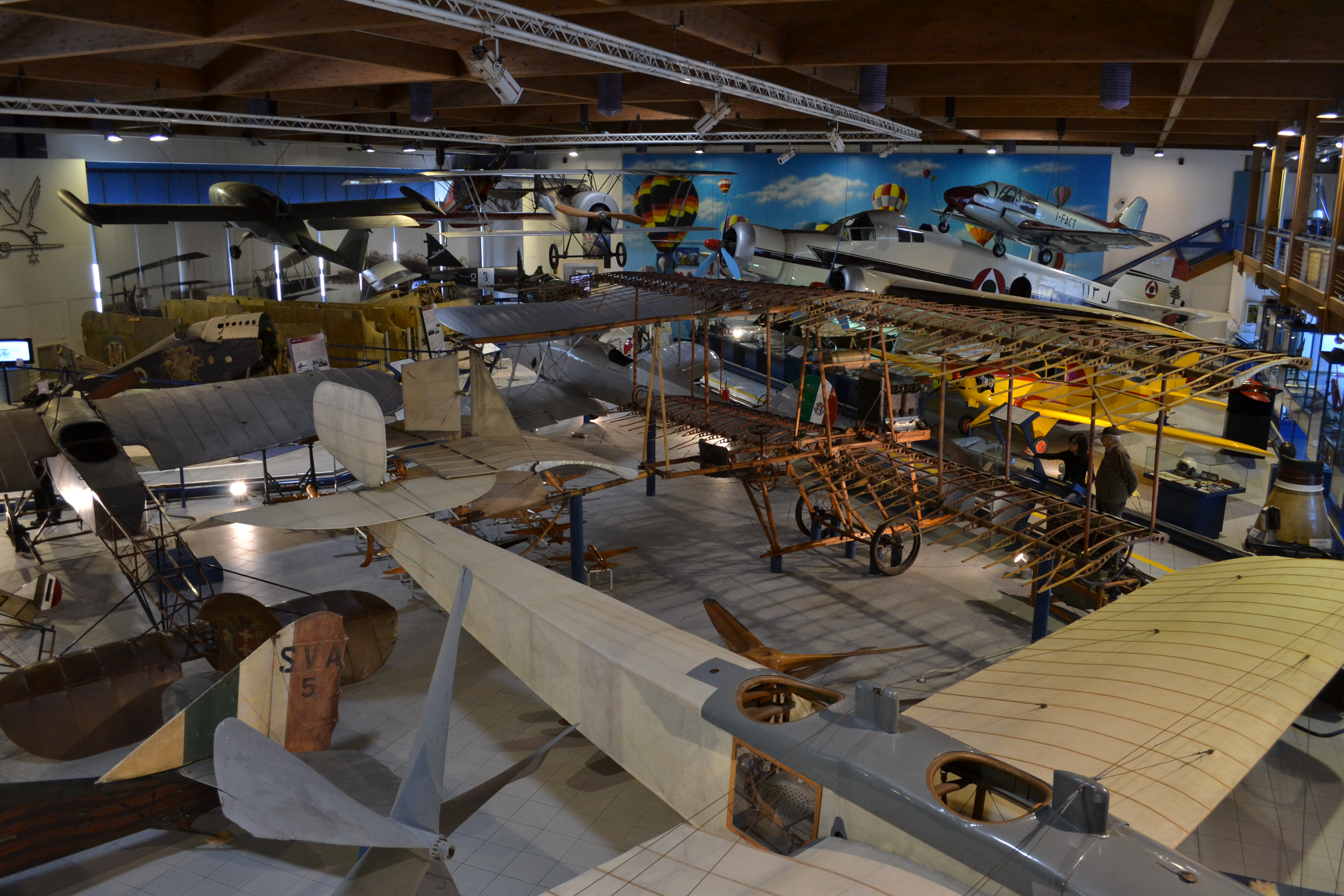 Panoramic view of the main exhibition hall of the Museo dell'aeronautica Gianni Caproni in Trento, Italy.